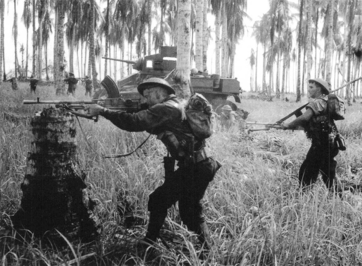 1943-01-02. PAPUA, GIROPA POINT. AUSTRALIAN MANNED M3 GENERAL STUART TANKS ATTACKING JAPANESE PILLBOXES IN THE FINAL ASSAULT ON BUNA. MEN OF D COMPANY, 2/12TH BATTALION, FIRE ON 25 JAPANESE (NOT SEEN), USING BREN MK 1 MACHINE GUNS AND SMLE NO 1 MKIII* RIFLES, WHO ARE FLEEING FROM A WRECKED PILLBOX 150 YARDS AWAY. THE PILLBOX WAS DESTROYED BY THE GENERAL STUART TANK SHOWN HERE. IN THE FOREGROUND ARE PRIVATE J. SEARLE AND CORPORAL G. G. FLETCHER. THIS PHOTOGRAPH WAS TAKEN DURING THE ACTUAL FIGHTING. Australian War Memorial, copyright expired, public domain. Image 014001.